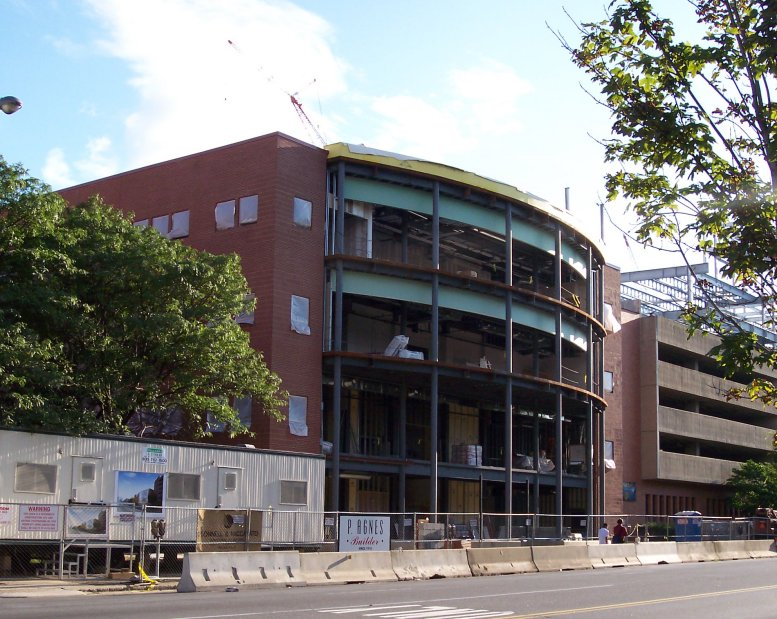 Drexel University College of Law School under construction.